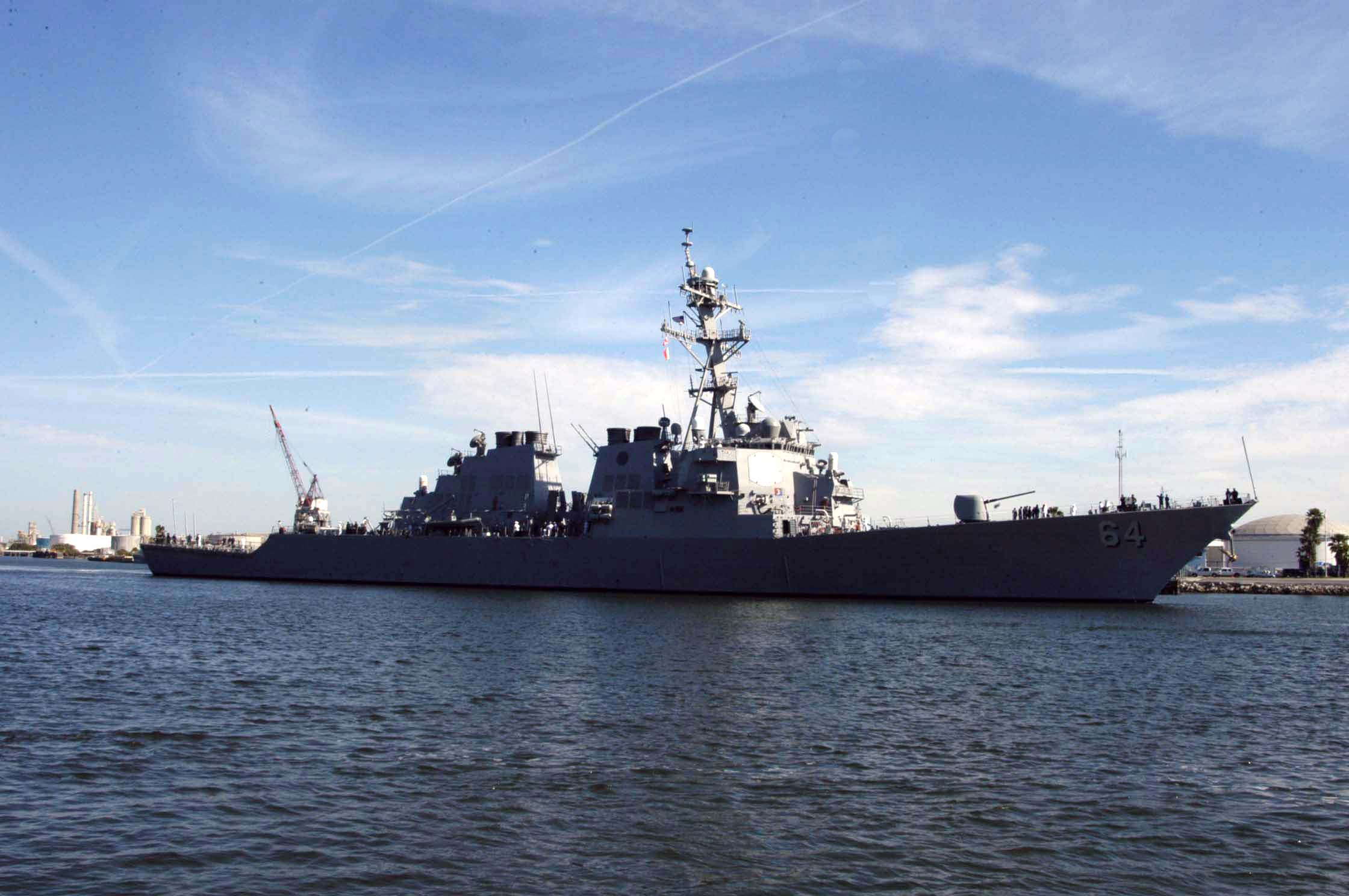 Tampa, Fla. (Jan. 27, 2006) – The guided missile destroyer USS Carney (DDG 64) departs Tampa Bay after supporting the annual Gasparilla Pirate Fest. The Navy’s week-long participation in the event includes visits to local Bay area high schools by the Navy Band, a Special Warfare Motivator team and an F-18 Flight Simulator. U.S. Navy photo by Photographer’s Mate 1st Class Dean Dunwody (RELEASED)